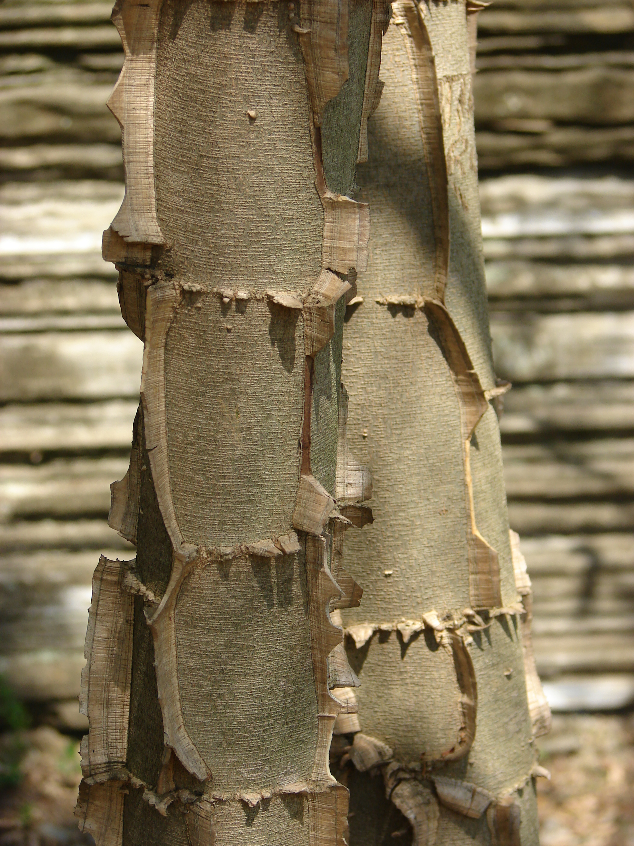 Piptadenia gonoacantha's young trunk detail (Brazil)